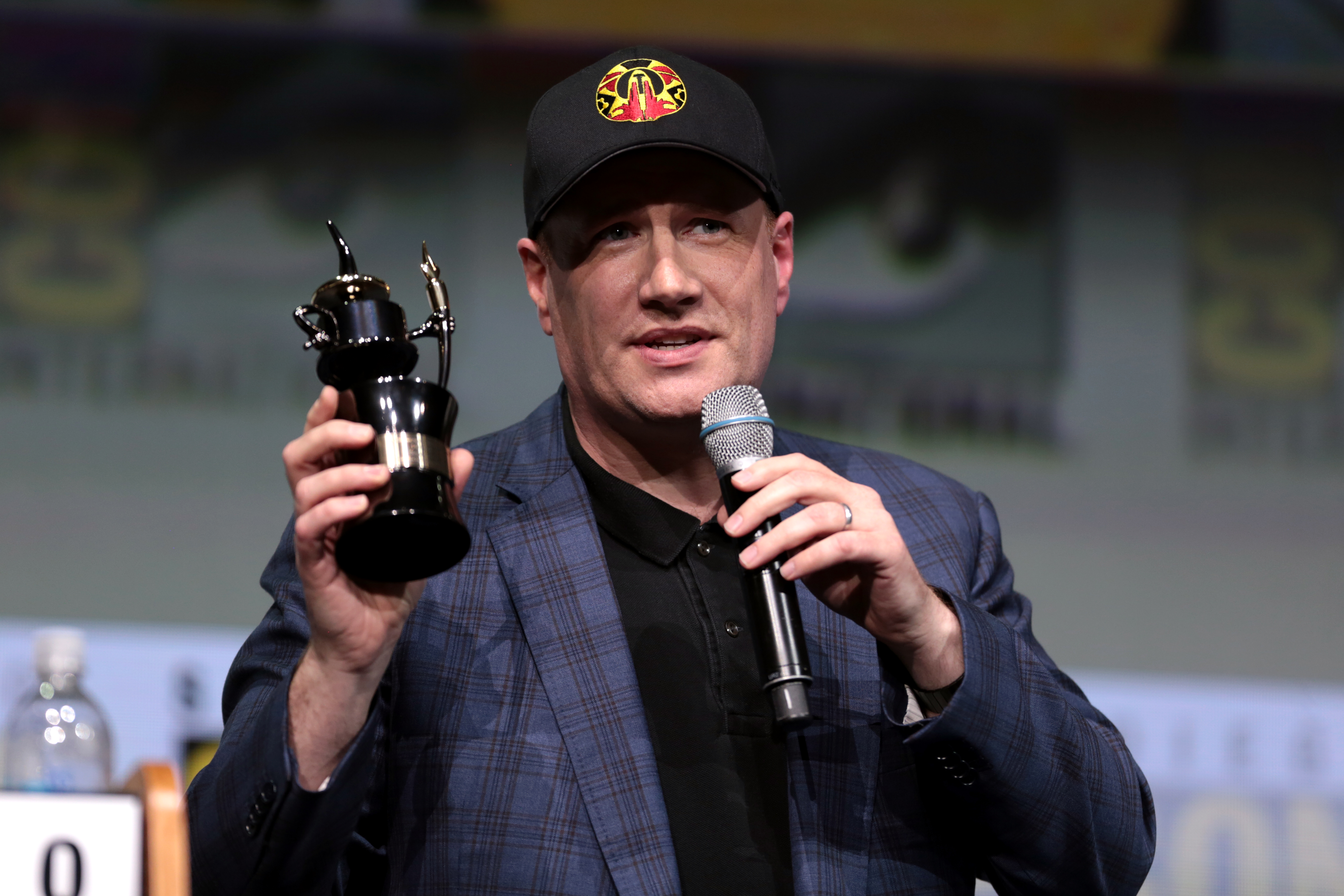 Kevin Feige, with the Inkpot Award, speaking at the 2017 San Diego Comic Con International at the San Diego Convention Center in San Diego, California.